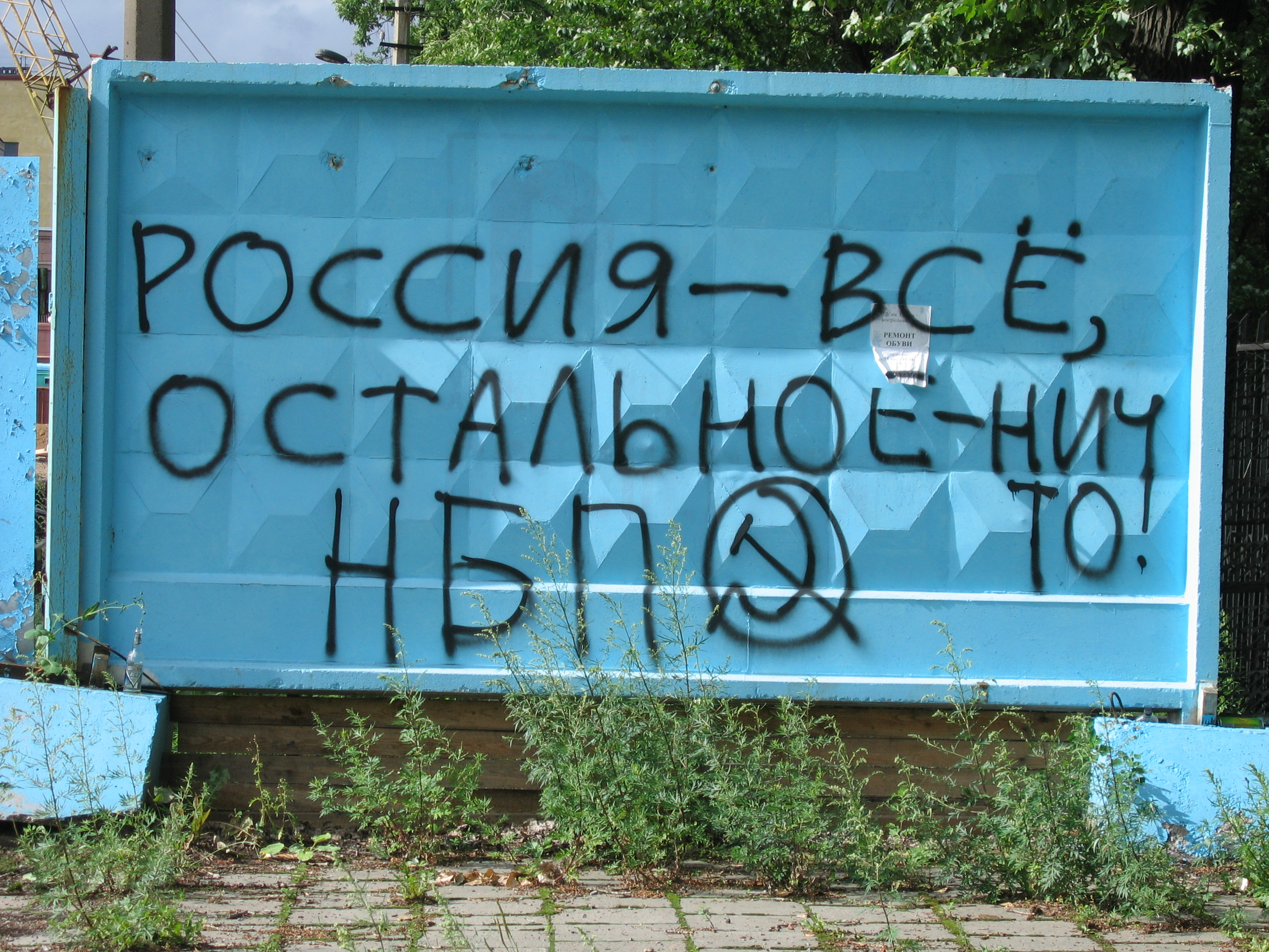 Russia is everything, the rest is nothing!